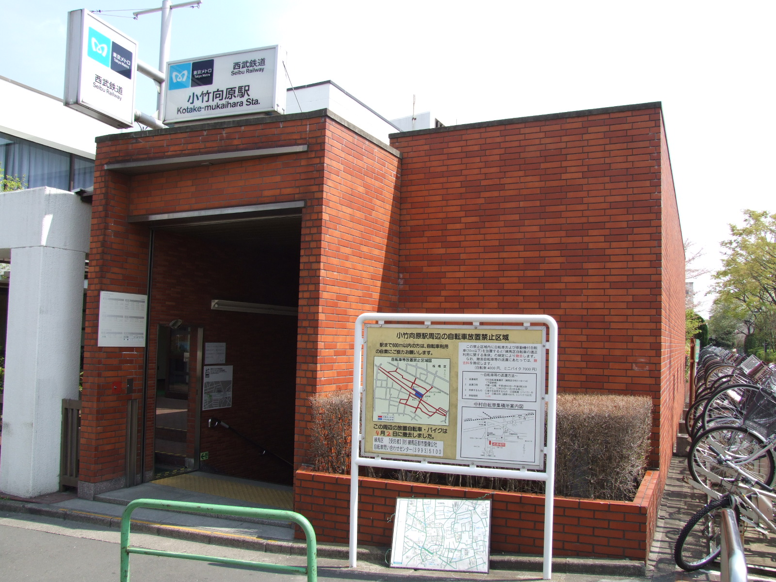 Exit 1, Kotake-Mukaihara Station